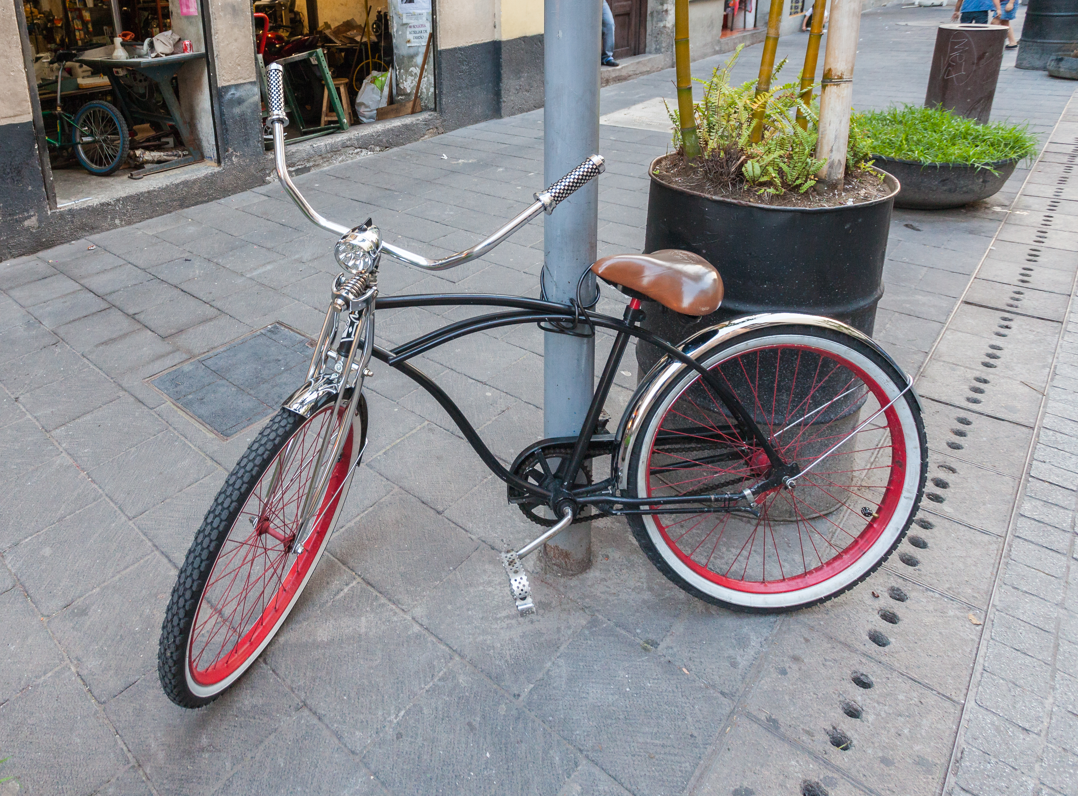 Bike in Regina St, Mexico City, Mexico